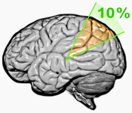 Ansicht der Windungen und Faltungen (Gyrus) des menschlichen Groß– und Kleinhirns anhand eines Modells (überlagert mit einem Sektor eines Tortendiagramms, um den Zehn-Prozent-Mythos zu verdeutlichen)